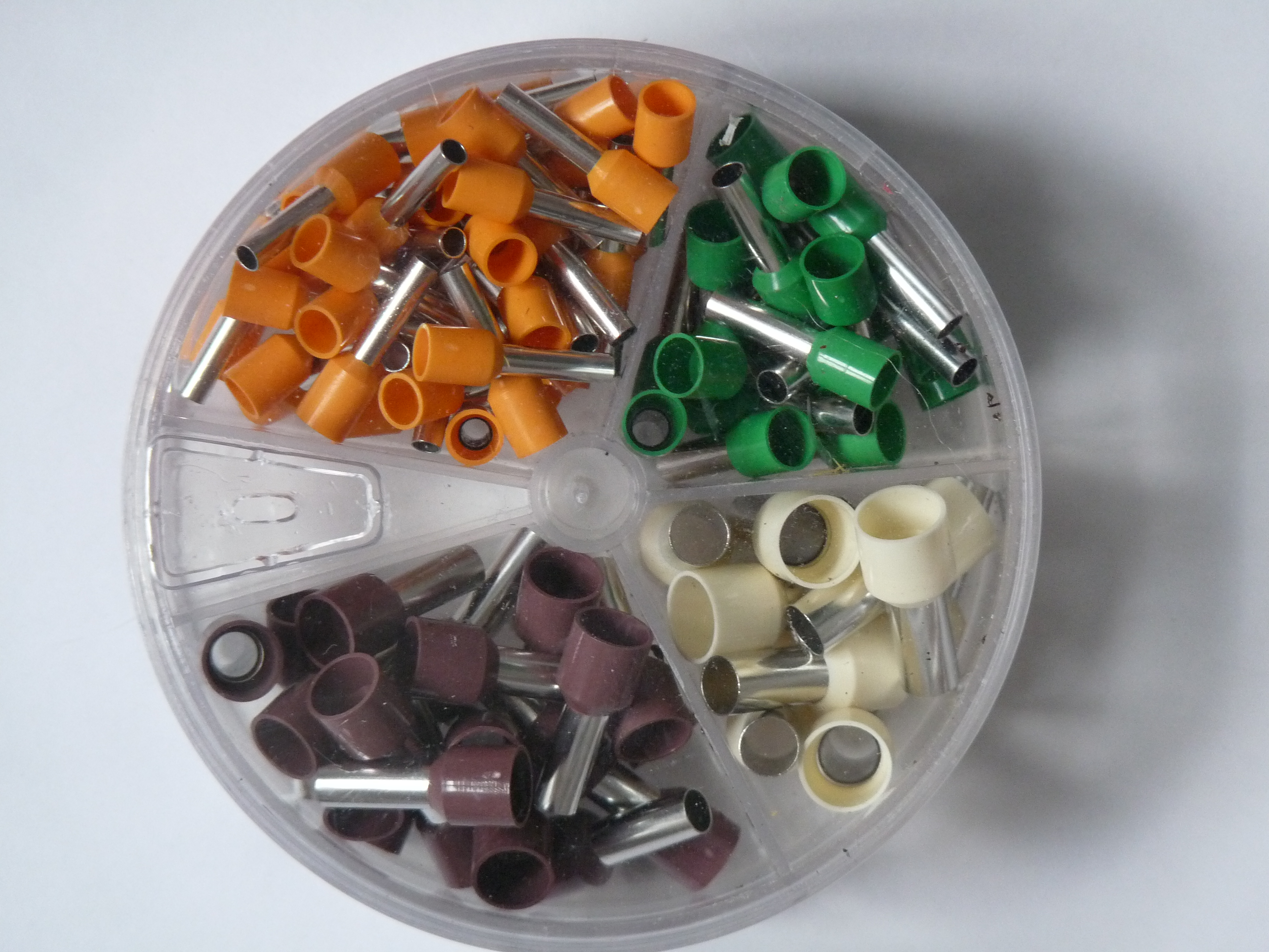 Trailerable wire sleeves for dry wires: 4mm² 6mm² 10mm² 16mm²